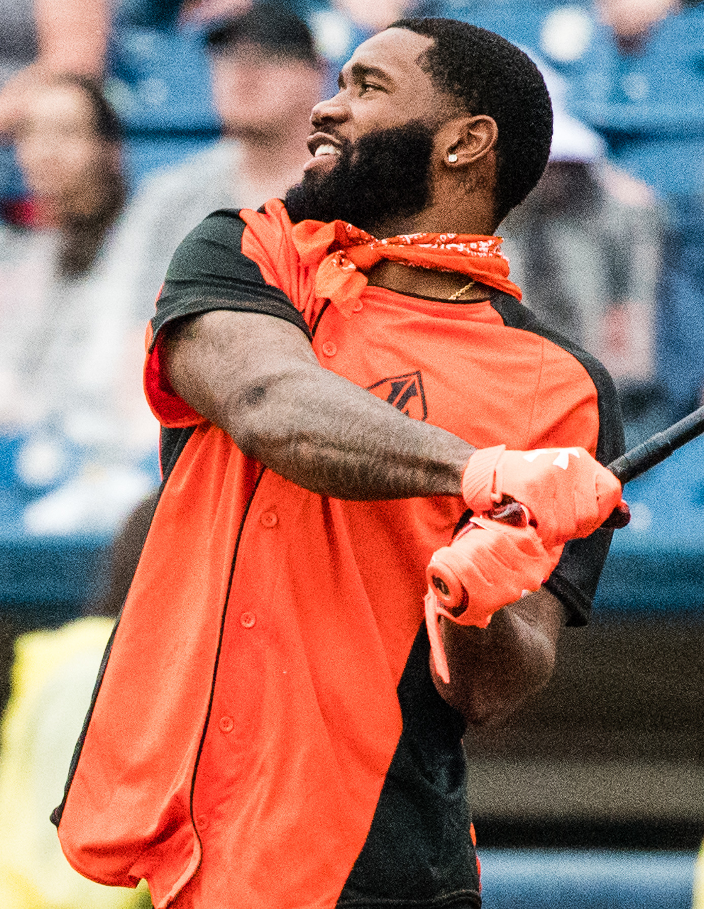 Xavian Howard